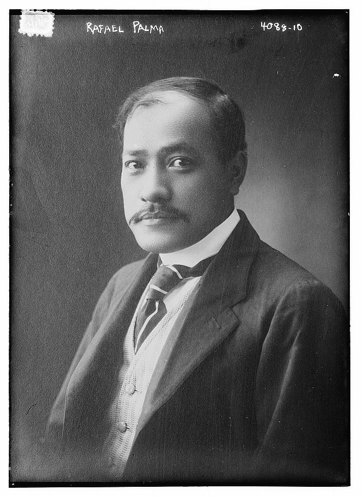 Rafael Palma y Velasquez circa 1915